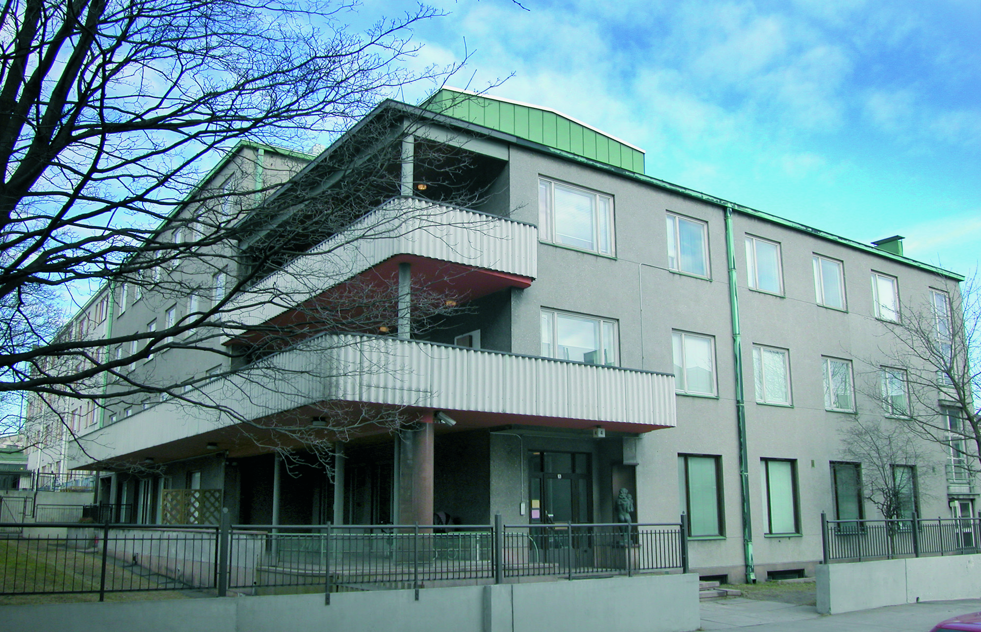 The Helsinki Mother and Child Home Association (Helsingin ensikoti ry) is an NGO that produces child welfare services under the Child Welfare Law in Finland.